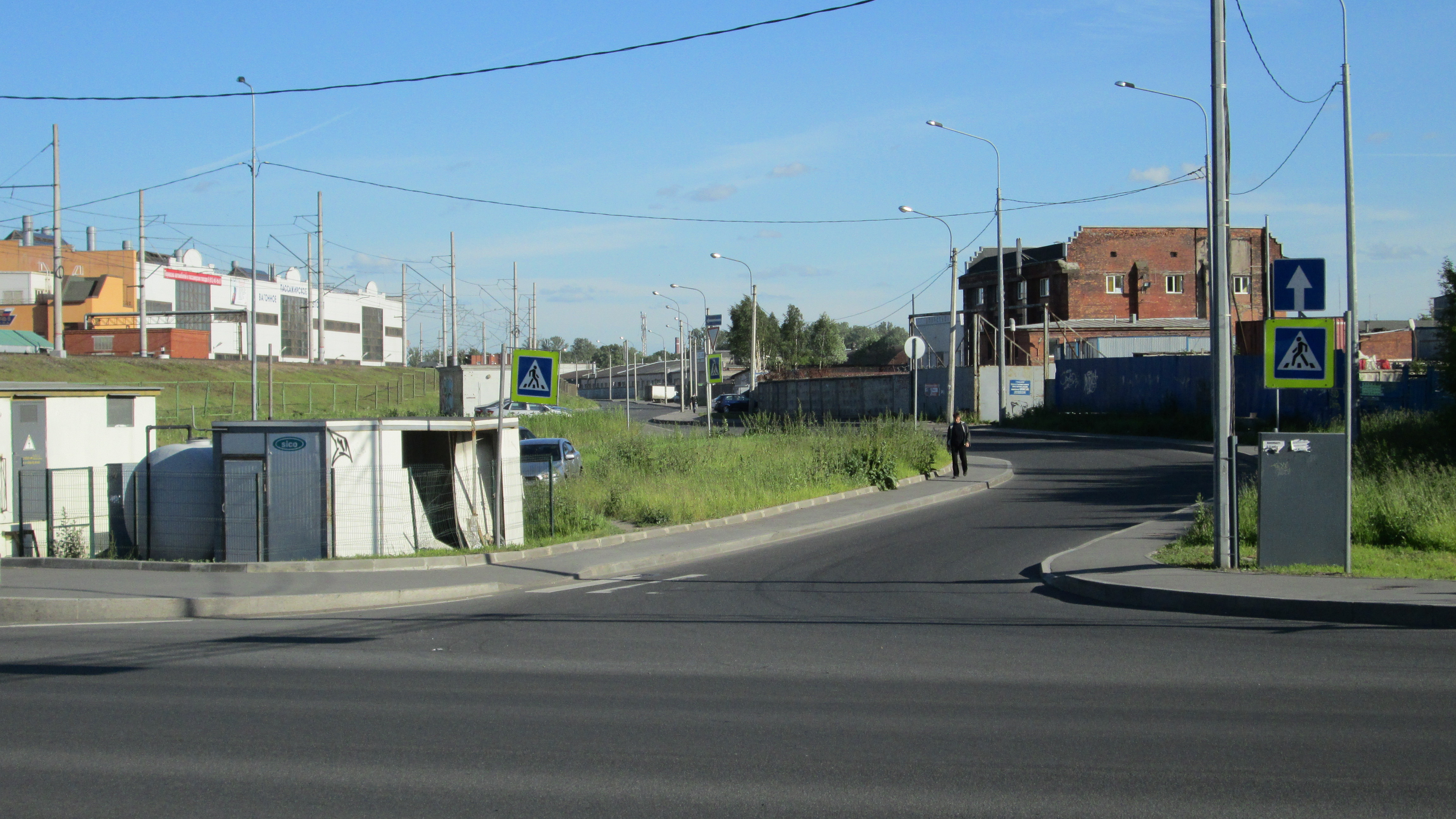 Neftyanaya Road in Saint Petersburg